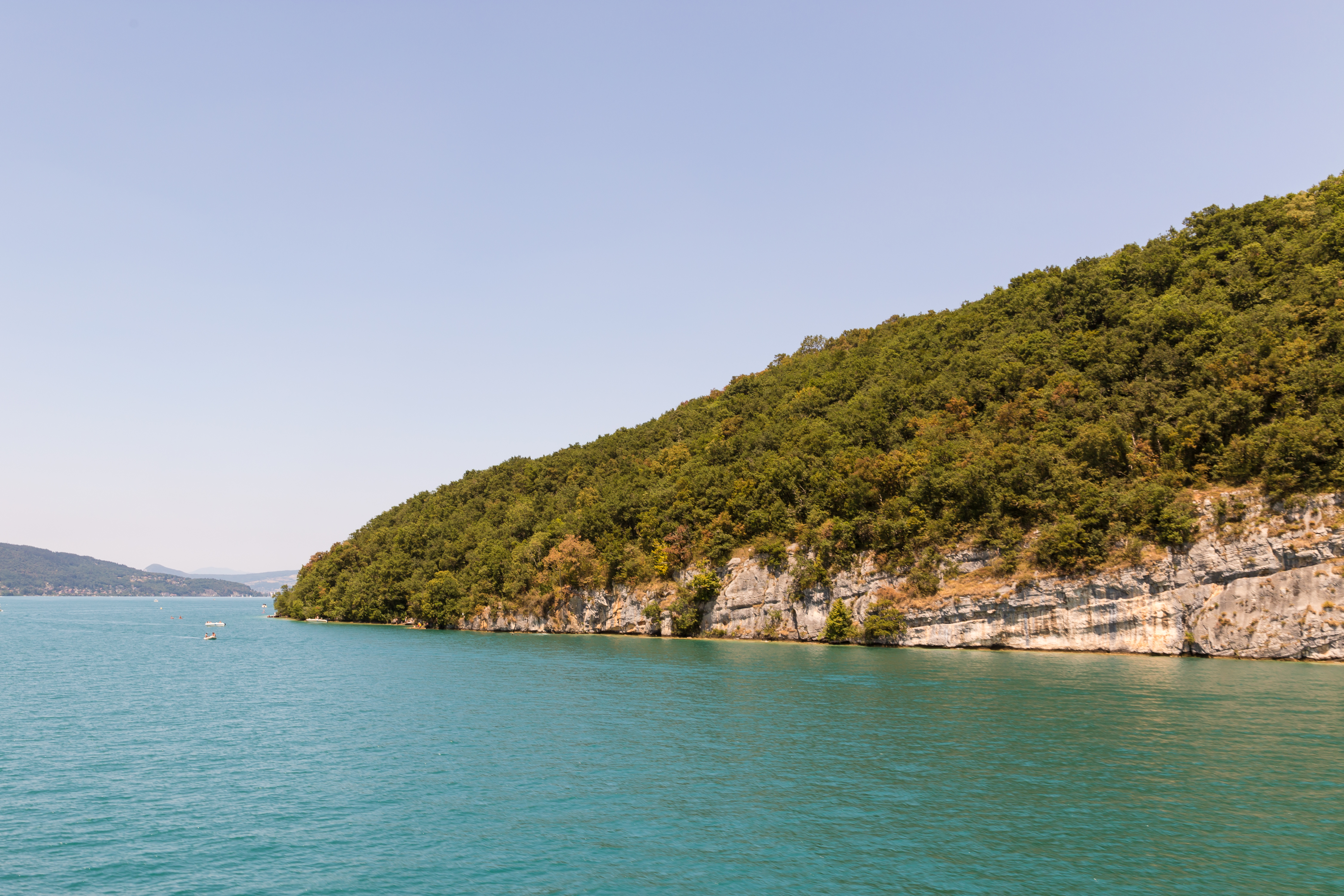 South slope of the roc de Chère, from Annecy Lake in Talloires, France.